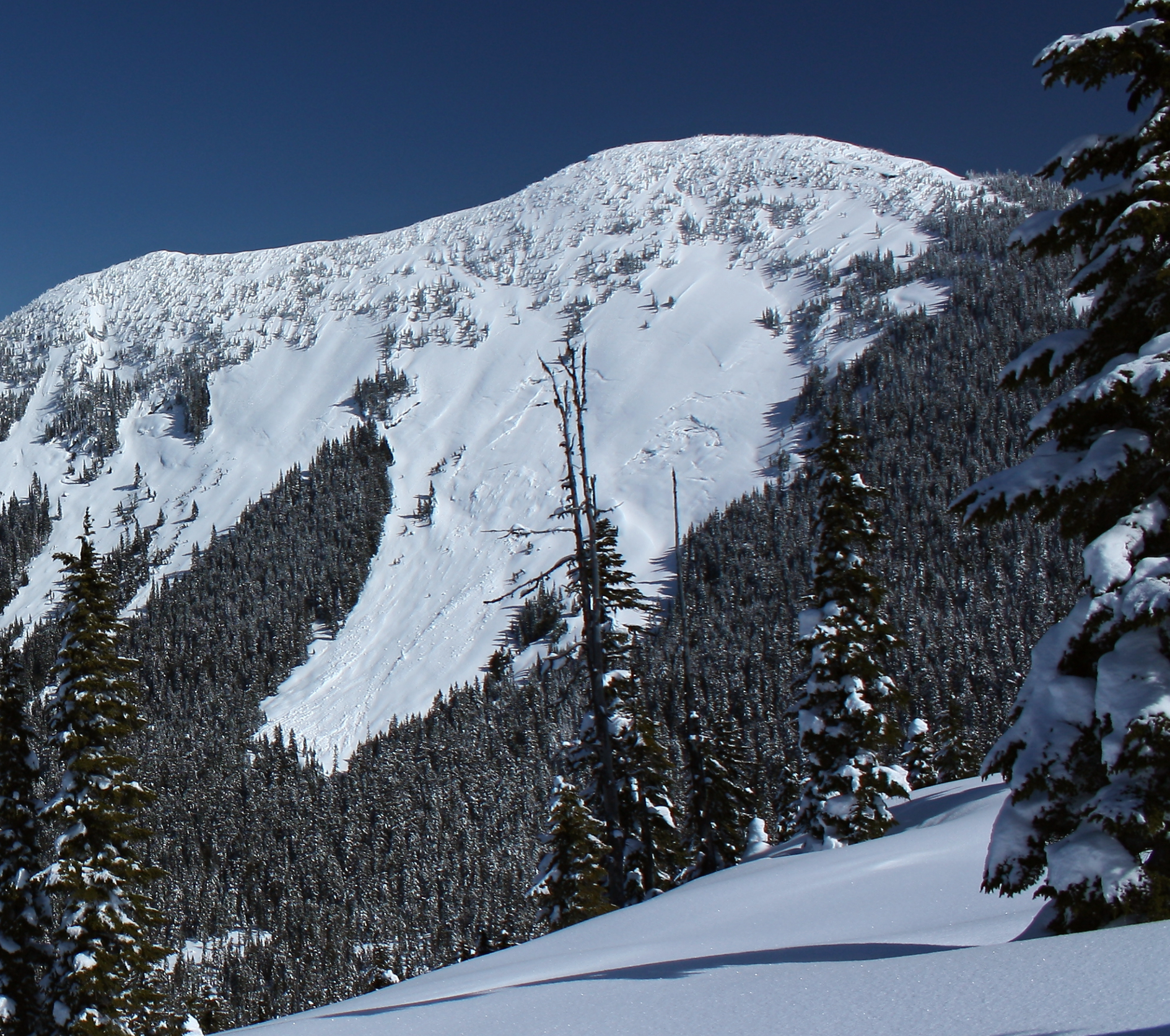 Zupjok Peak seen from Iago Peak